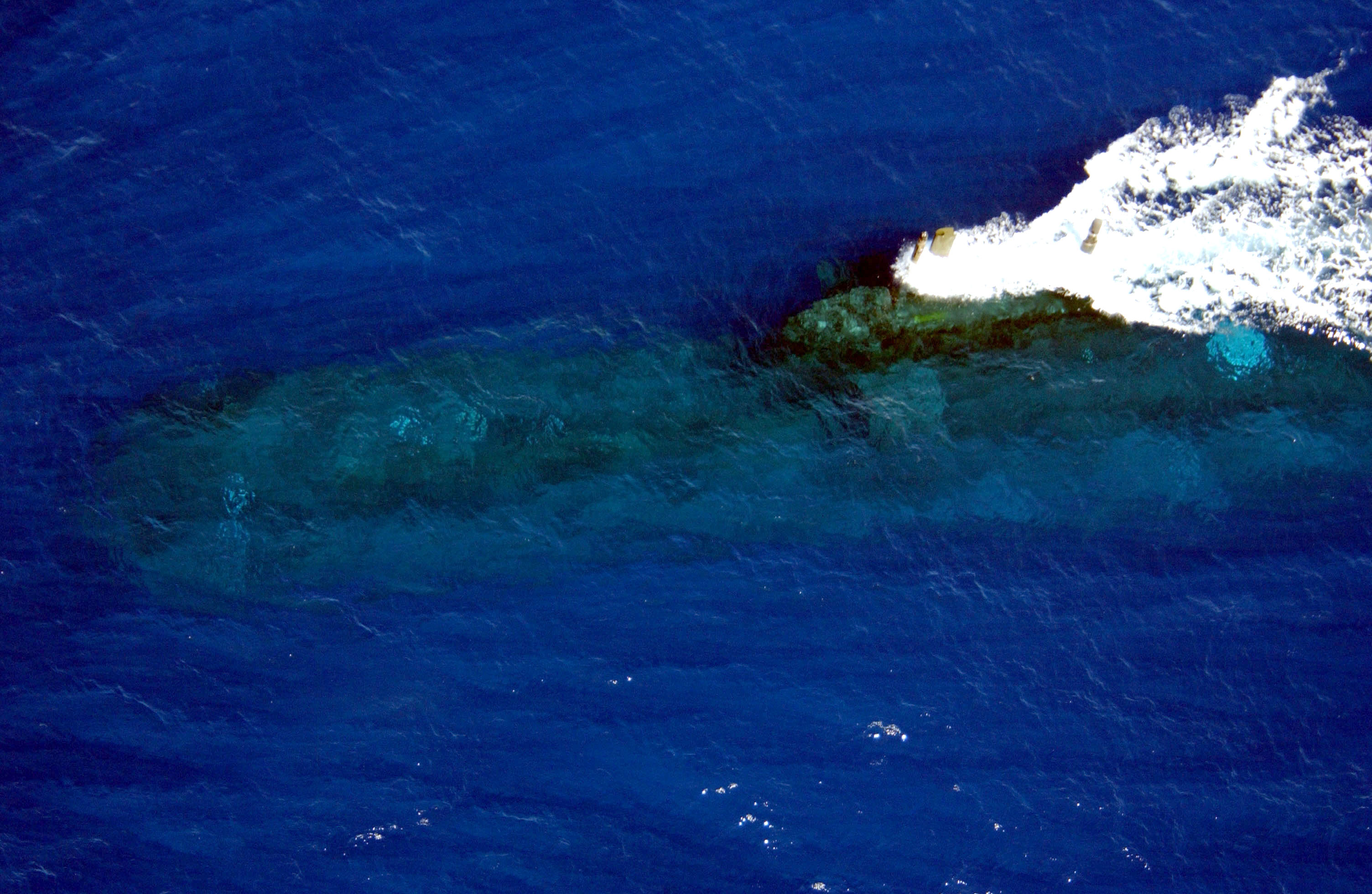 Pacific Ocean (July 6, 2004) — Australia's Collins-class submarine, HMAS Rankin (SSK-78) cruises out to sea at periscope depth, and is scheduled to participate in exercise Rim of the Pacific (RIMPAC) 2004. RIMPAC is the largest international maritime exercise in the waters around the Hawaiian Islands. This year’s exercise includes seven participating nations; Australia, Canada, Chile, Japan, South Korea, United Kingdom and United States. RIMPAC is intended to enhance the tactical proficiency of participating units in a wide array of combined operations at sea, while enhancing stability in the Pacific Rim region.